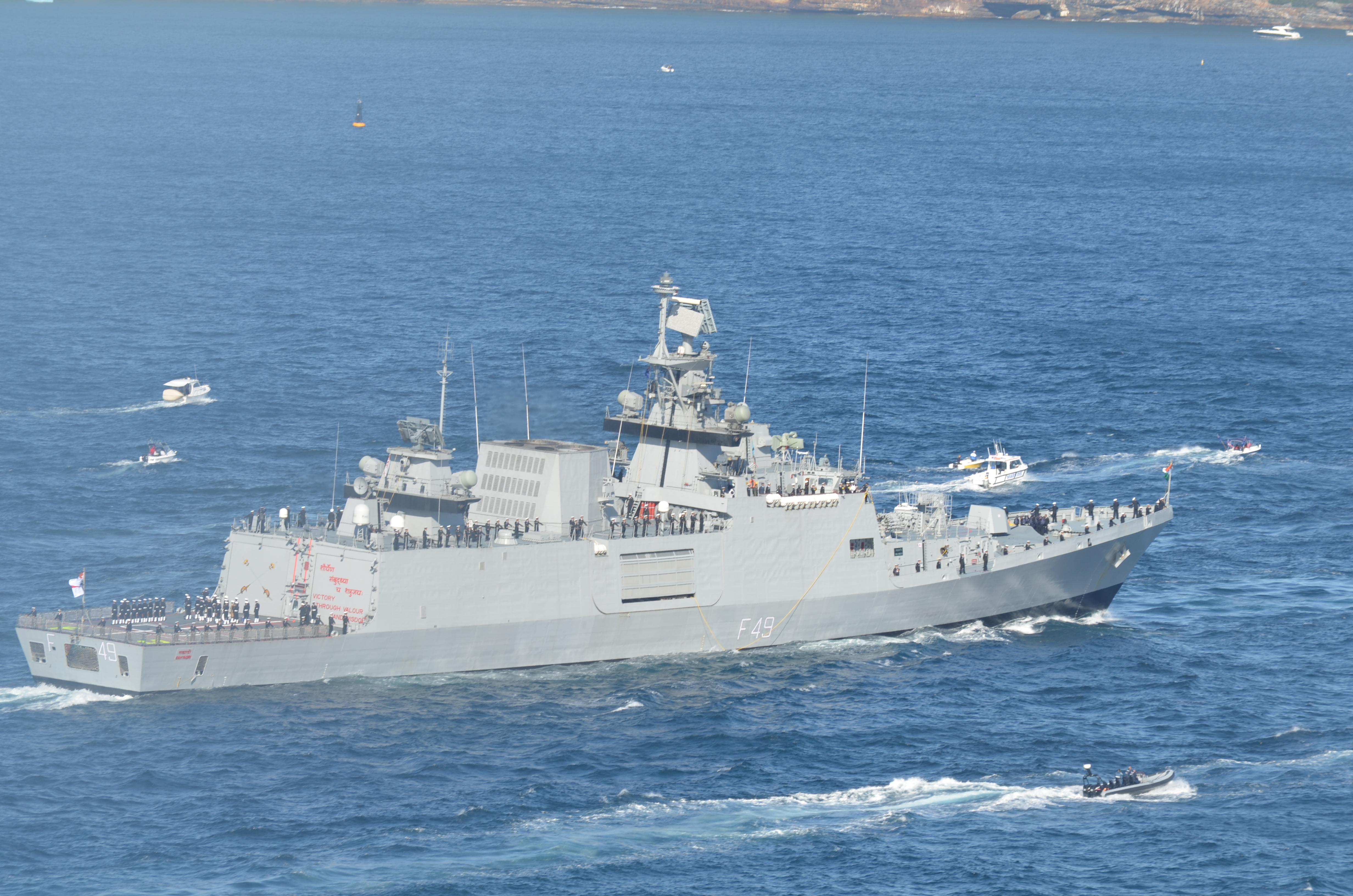 Photographs taken during day 2 of the Royal Australian Navy International Fleet Review 2013. The Indian frigate Sahyardi, entering Sydney Harbour.